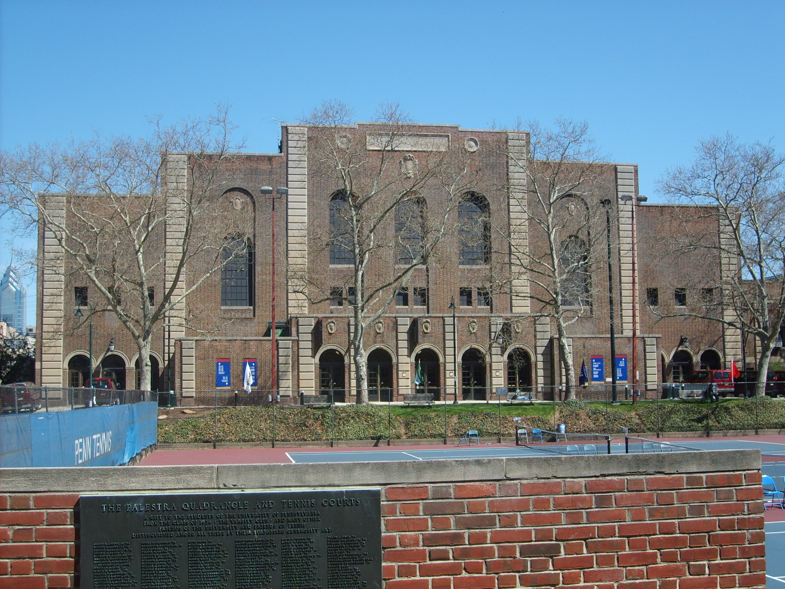 The Palestra